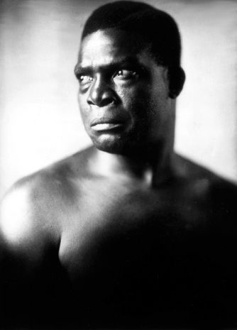 Portrait of Cameroonian actor Louis Brody (1892–1952) by Yva (Else Ernestine Neuländer-Simon).